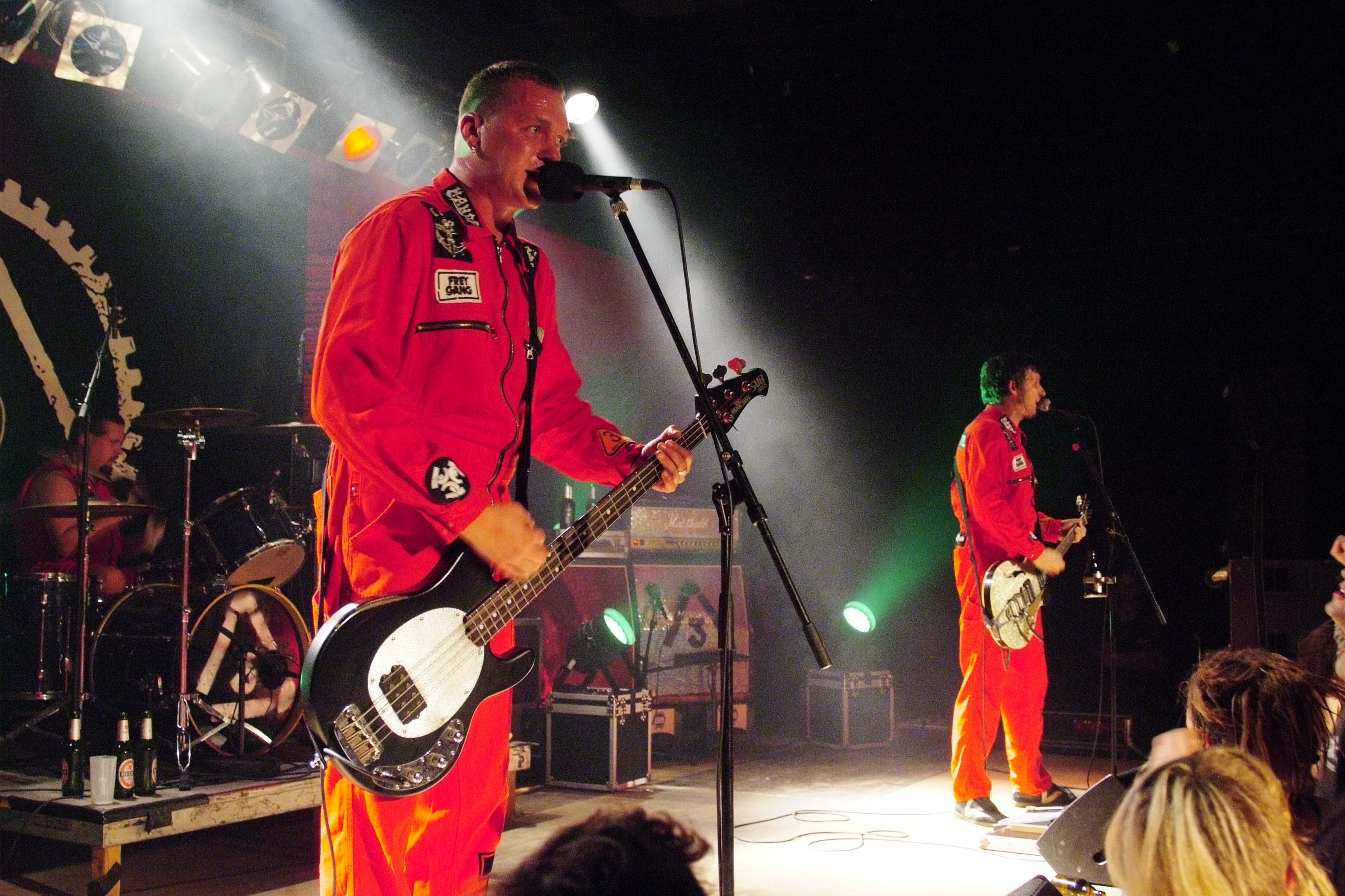 Dritte Wahl, punk band from Rostock, Germany. Concert in Kiel, "Pumpe", 23 October 2009